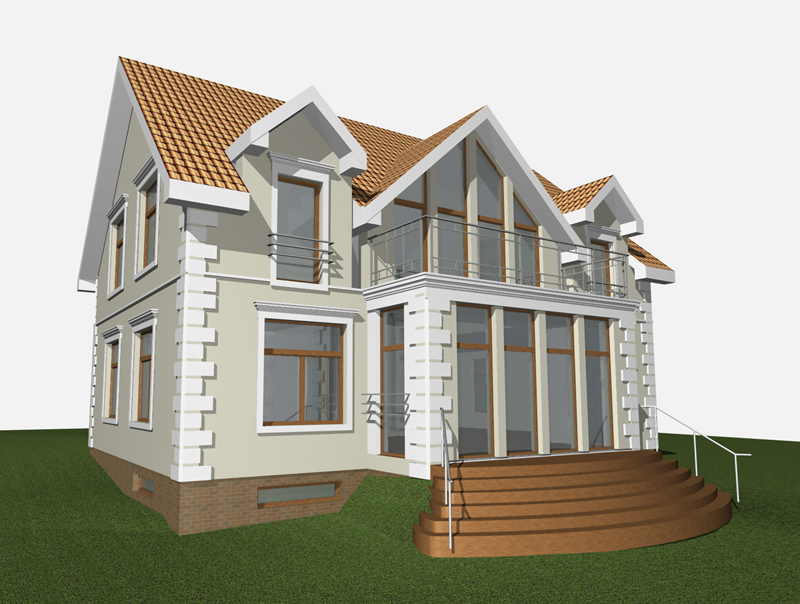 House 3D model, example of computer-aided architectural design (CAAD)